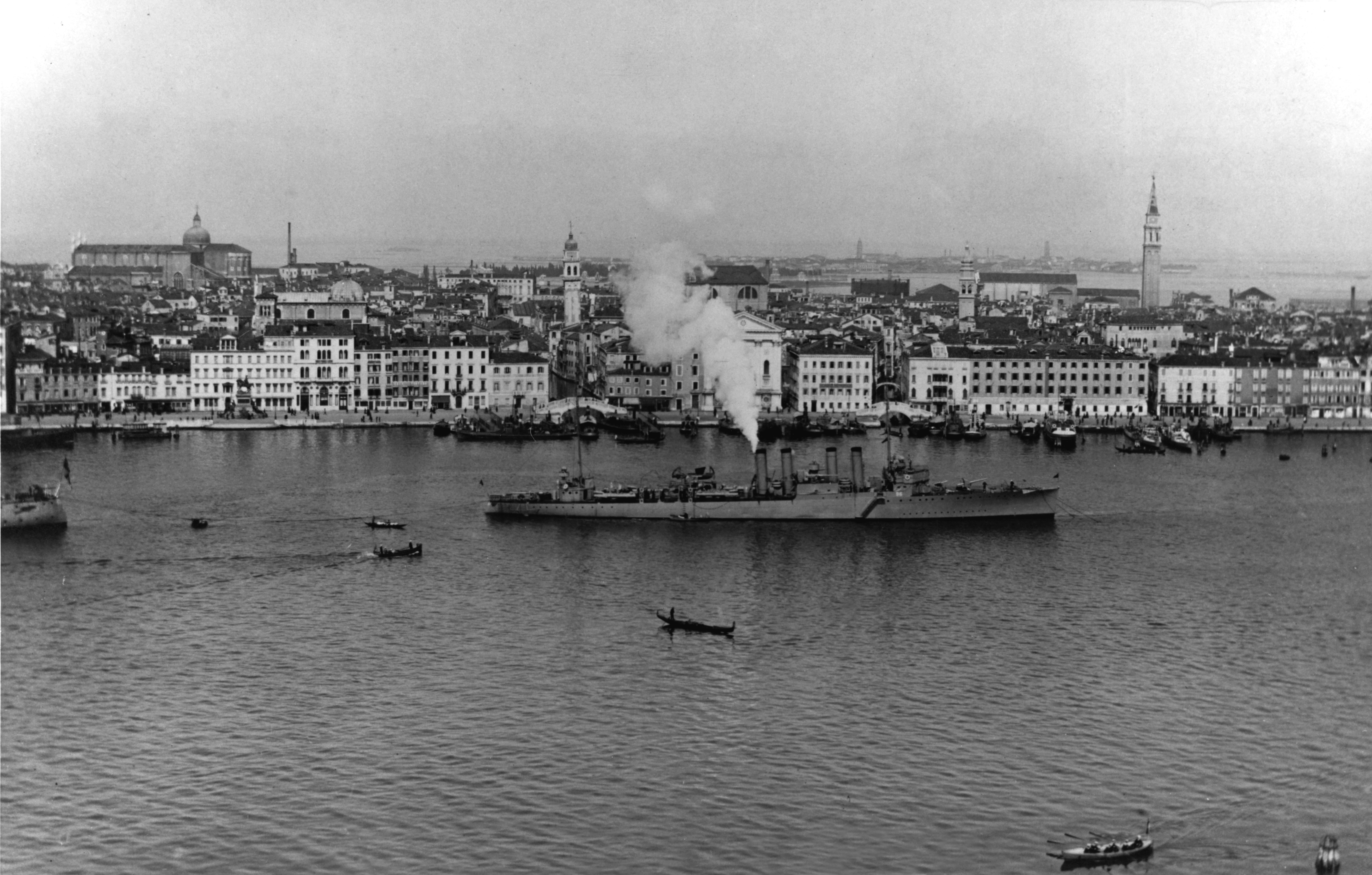 The U.S. Navy destroyer USS Stribling (DD-96) at Venice, Italy, on 10 April 1919. Note the small hull number below the bridge.